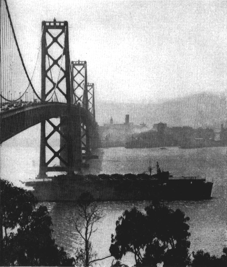 The French escort carrier Dixmude leaves San Francisco, California (USA), loaded with planes for the Indochina War.